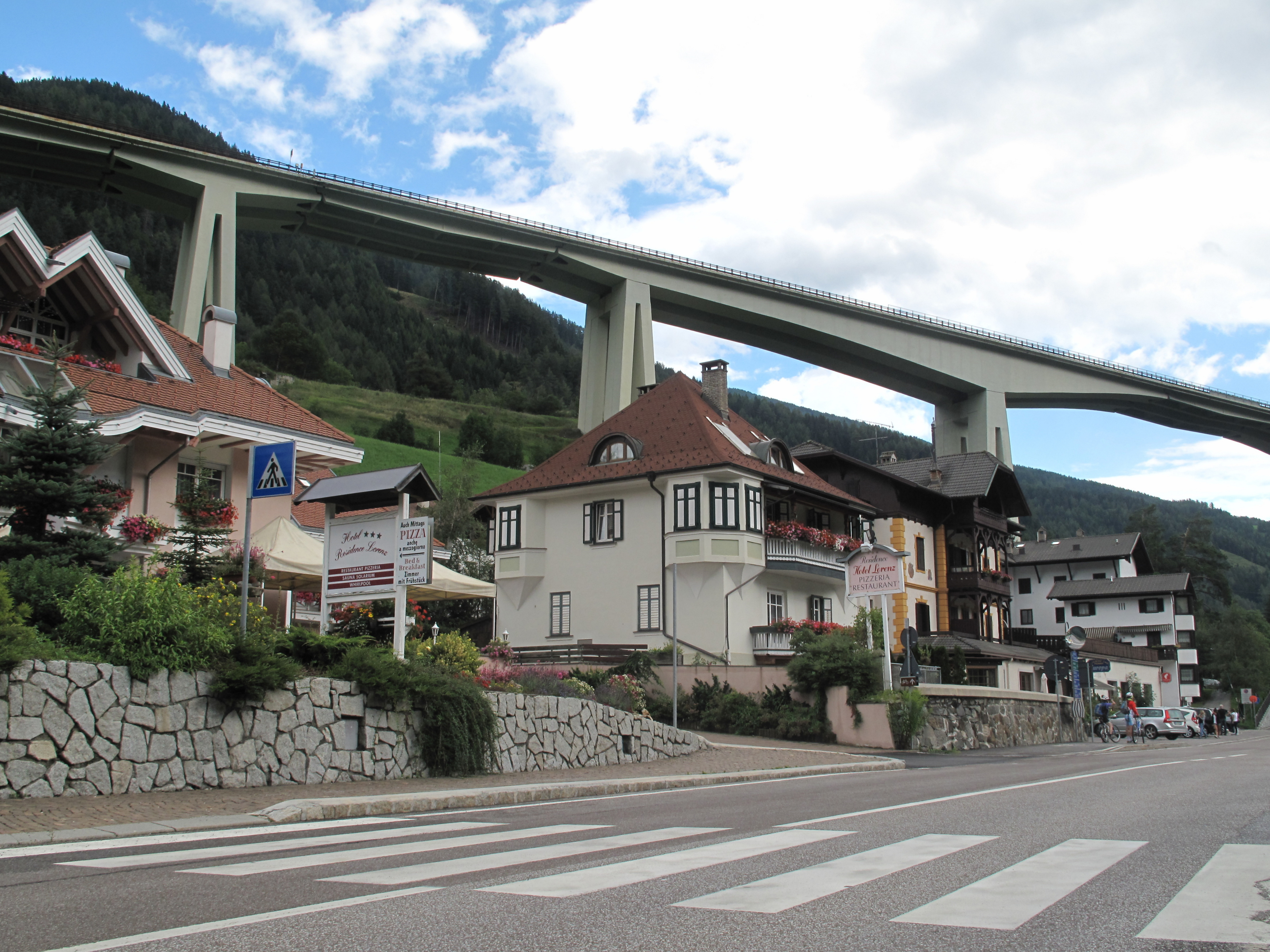 Colle Isarco, view to a street with a viaduct